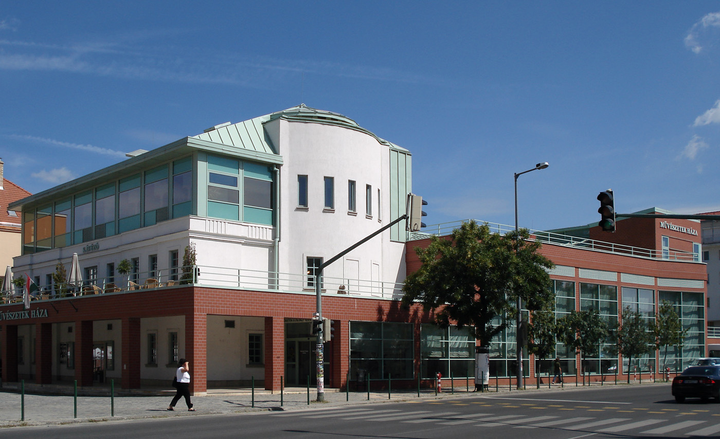 House of Arts, Miskolc, Hungary